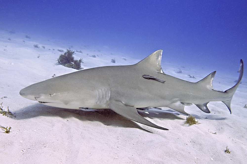 solitary lemon shark (Negaprion brevirostris) at Tiger Beach, Bahamas; shot February 2, 2009 by Terry Goss, with a Nikon D300/Nikkor 12-24mm in Aquatica AD300 housing with dual Sea & Sea YS90 strobes.